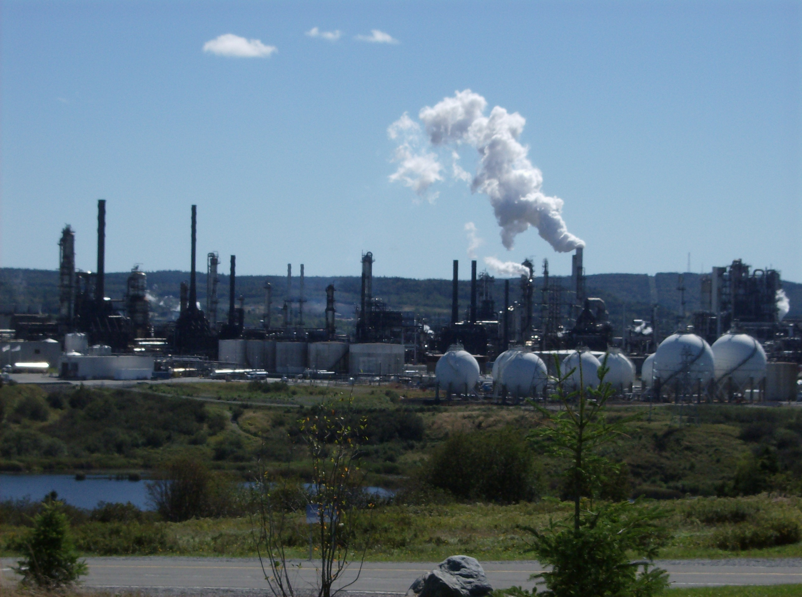 Irving Oil Refinery, Saint John NB